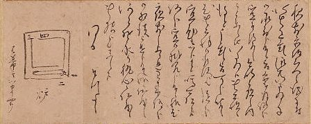 Letter by Sottakusai. One, two, three, four, five. - Cleaning the frame (robuchi) of the fire pit (ro) step by step. Hand written instructions given by the eighth generation head of Omotesenke tea tradition. Ken'o Sosa, Sottakusai (1744-1808) VIII generation head of Omotesenke Letter Ink on paper 13.6 x 33.8 (5 1/4 x 13 1/4 in.) Mounting 108 x 44 cm (42 1/2 x 17 1/4 in.) Wooden box Private collection.